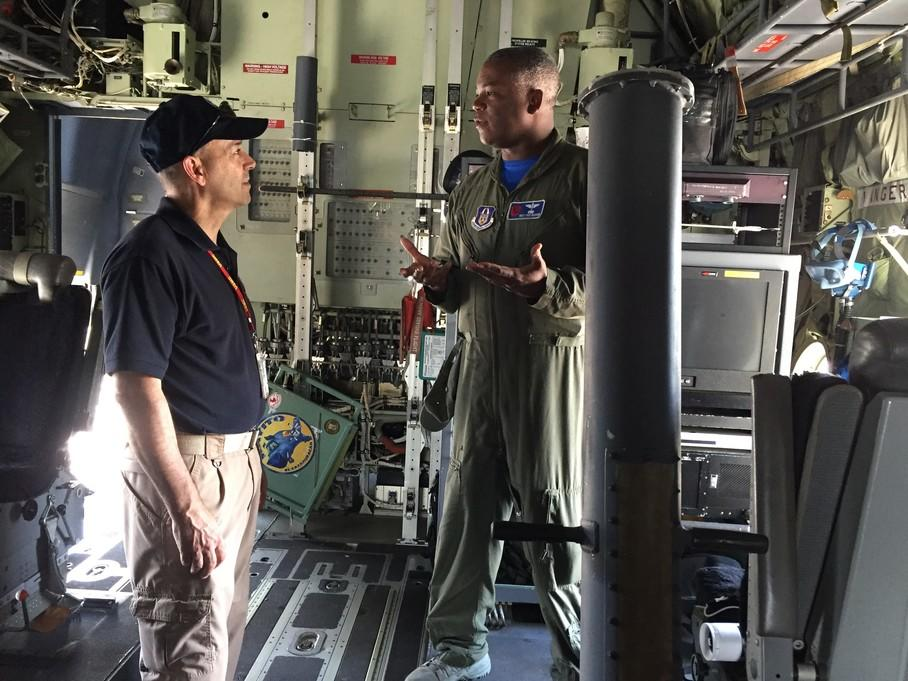 LAKELAND, Fla., May 11, 2018 – Master Sgt. Troy Bickham (right), a dropsonde operator with the 53rd Weather Reconnaissance Squadron, and Federal Coordinating Officer Allan Jarvis of FEMA Region IV in Atlanta discuss Hurricane Hunter aircraft operations aboard an Air Force Reserve WC-130J Super Hercules at a Hurricane Awareness Tour event in Polk County, Fla. Photo by John Mills / FEMA.